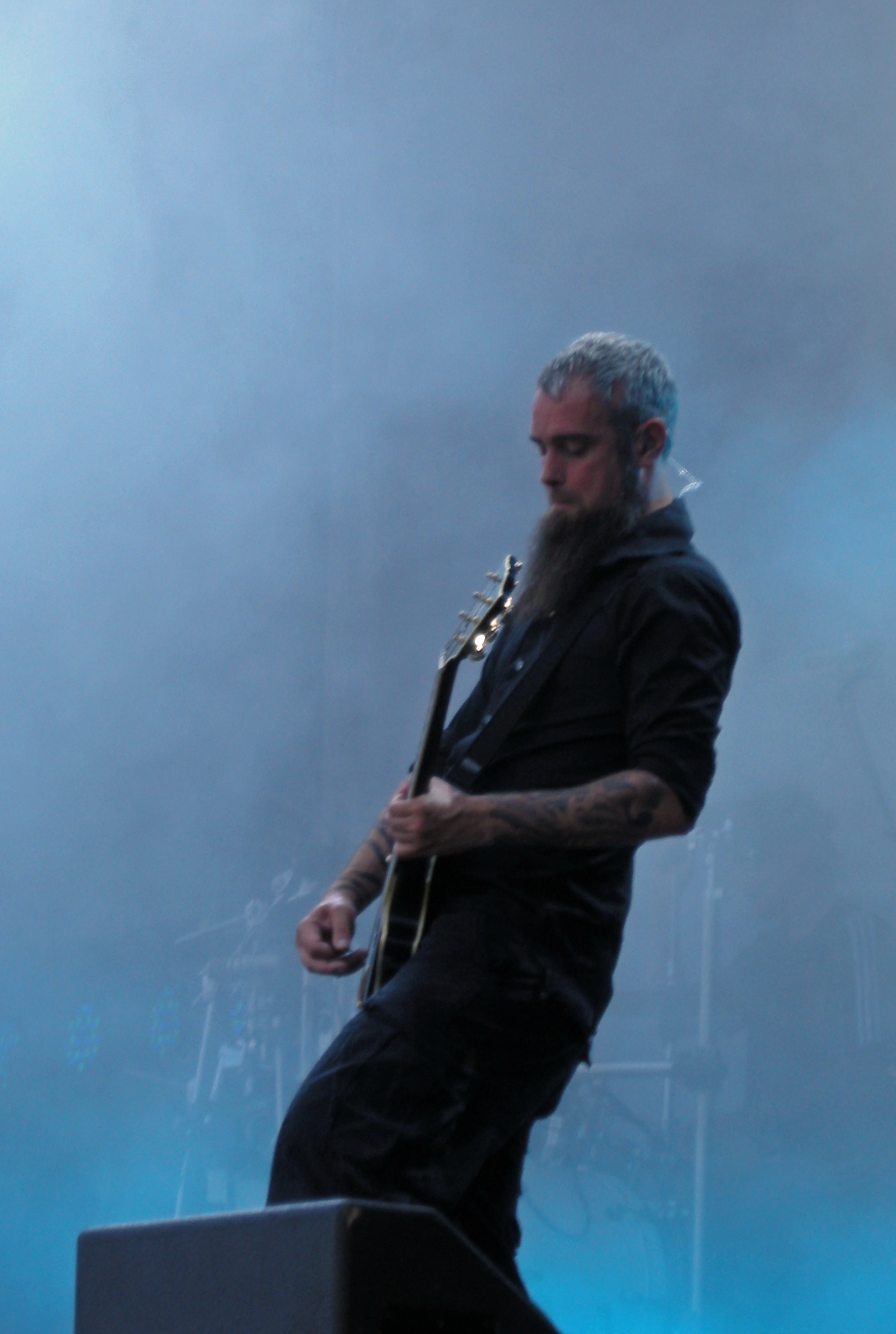 Björn Gelotte with In Flames at Sonisphere Festival, Stockholm, Sweden 2011